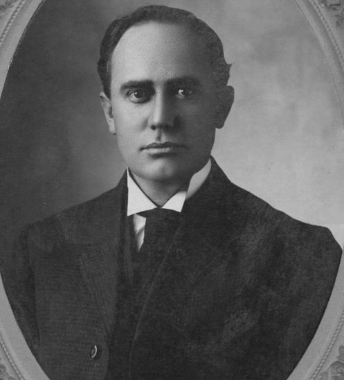 Kentucky Congressman Lewis L. Walker